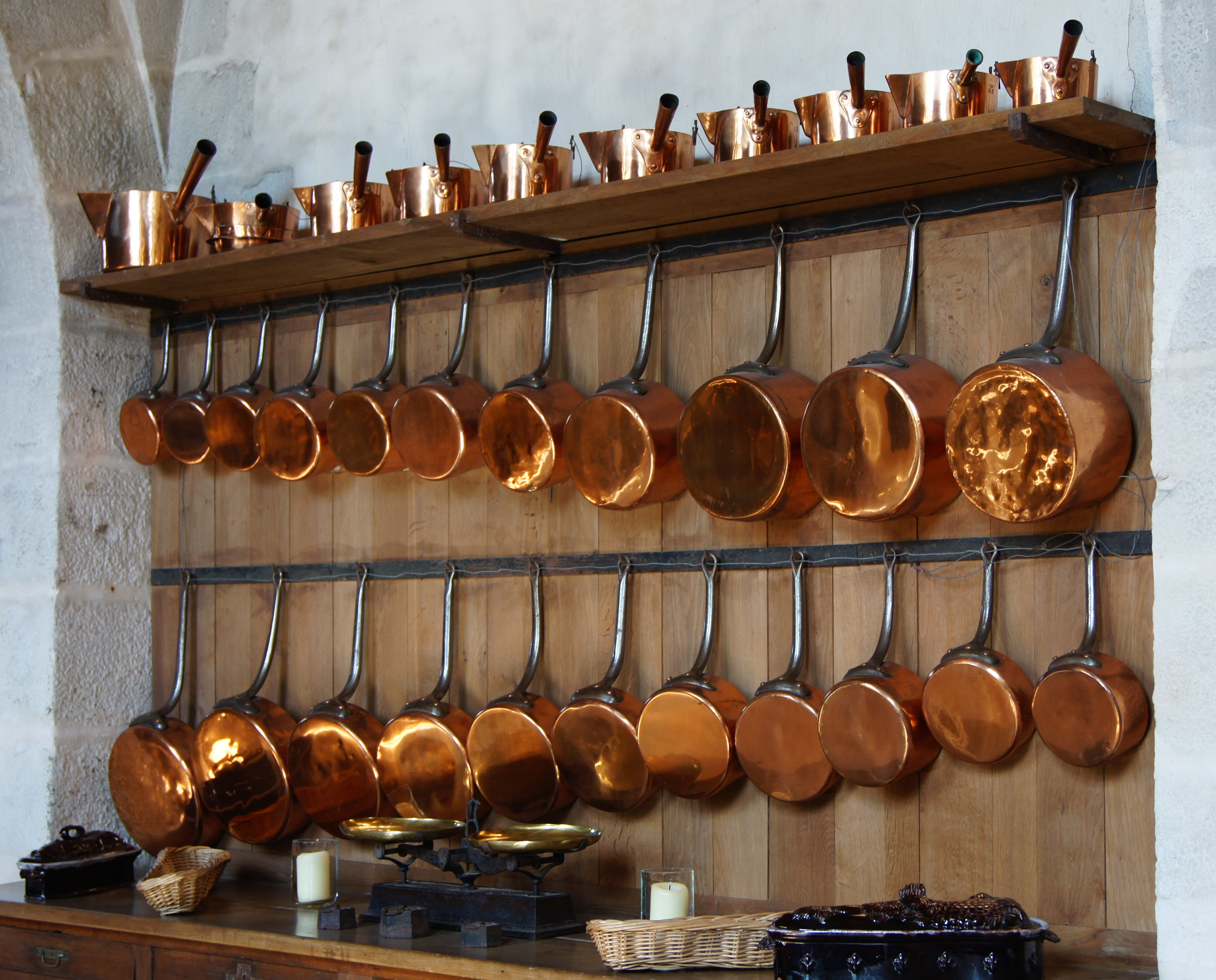 collection of copper saucepans in kitchen of Vaux-le-Vicomte castle